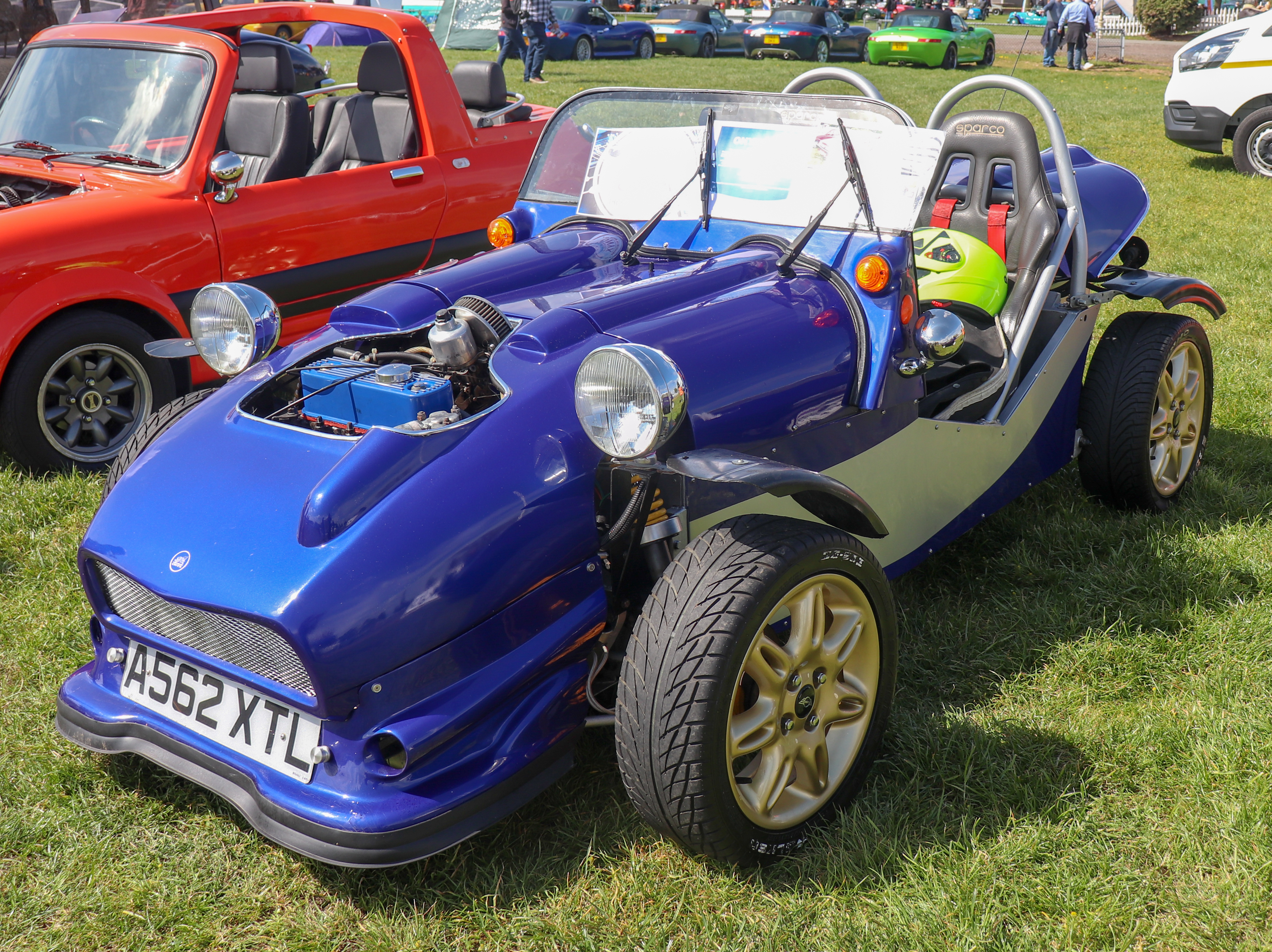 2001 Onyx Bobcat 1.3 Front Taken at the Stoneleigh National Kit Car Motor Show 2019